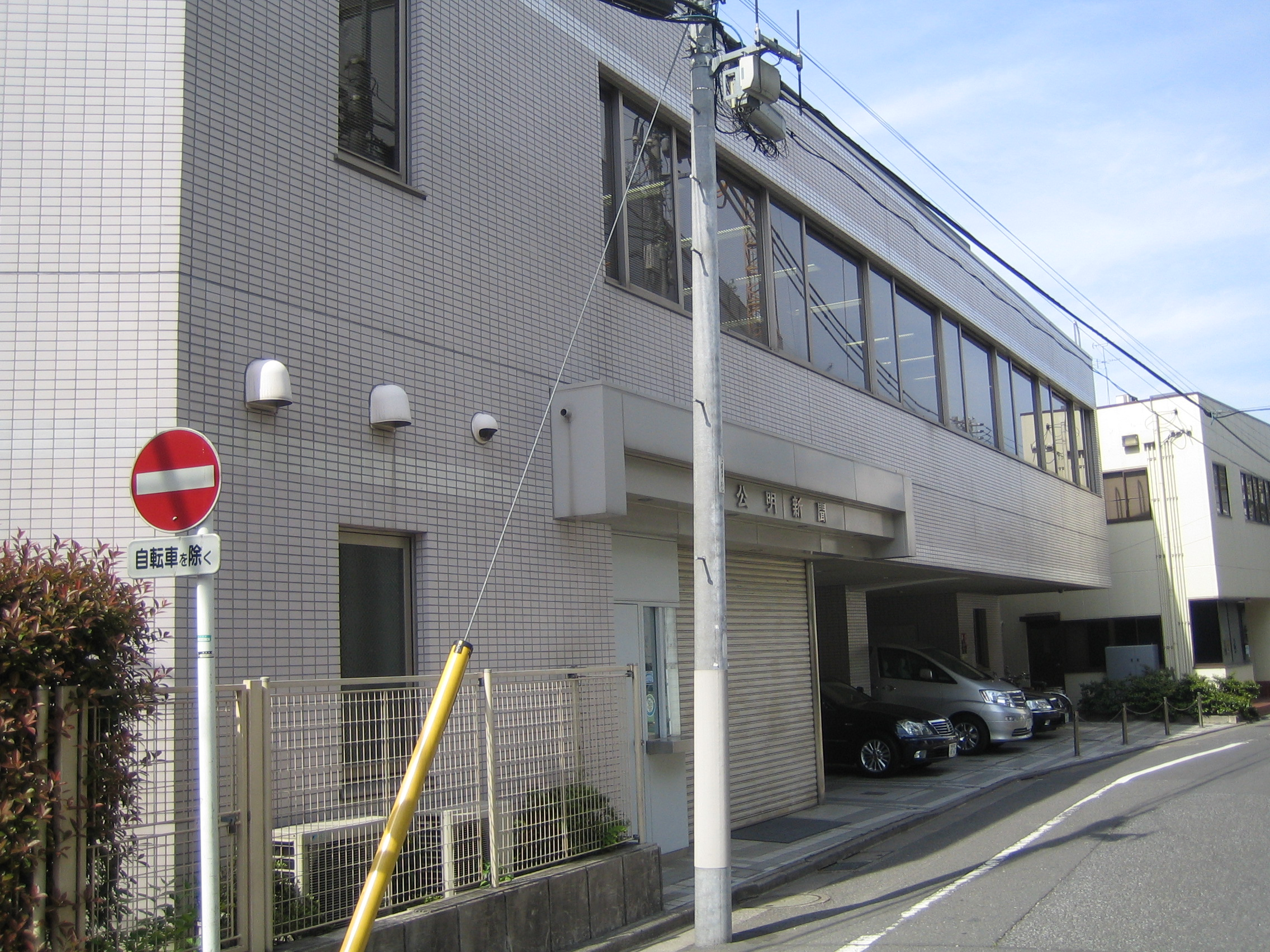 The Komei Shimbun (公明新聞), in Shinjuku, Tokyo, Japan